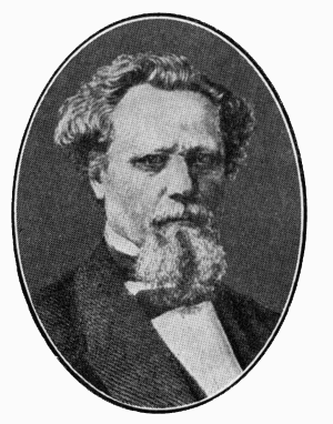 Portrait of Swedish author Karl Fredrik Ridderstad 1807-1886